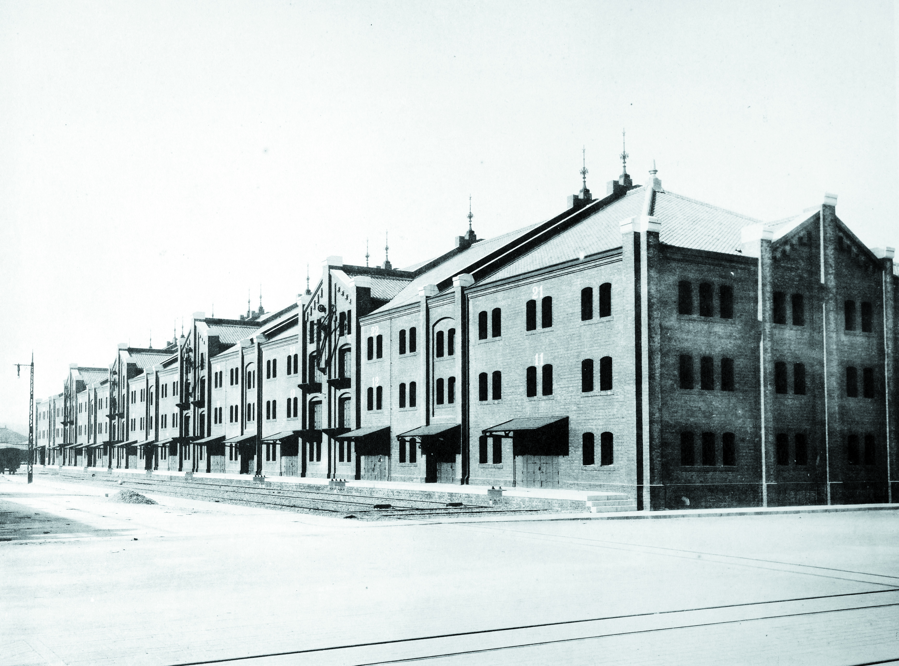 赤レンガ倉庫、1917年 (Yokohama Red Brick Warehouse, 1917)